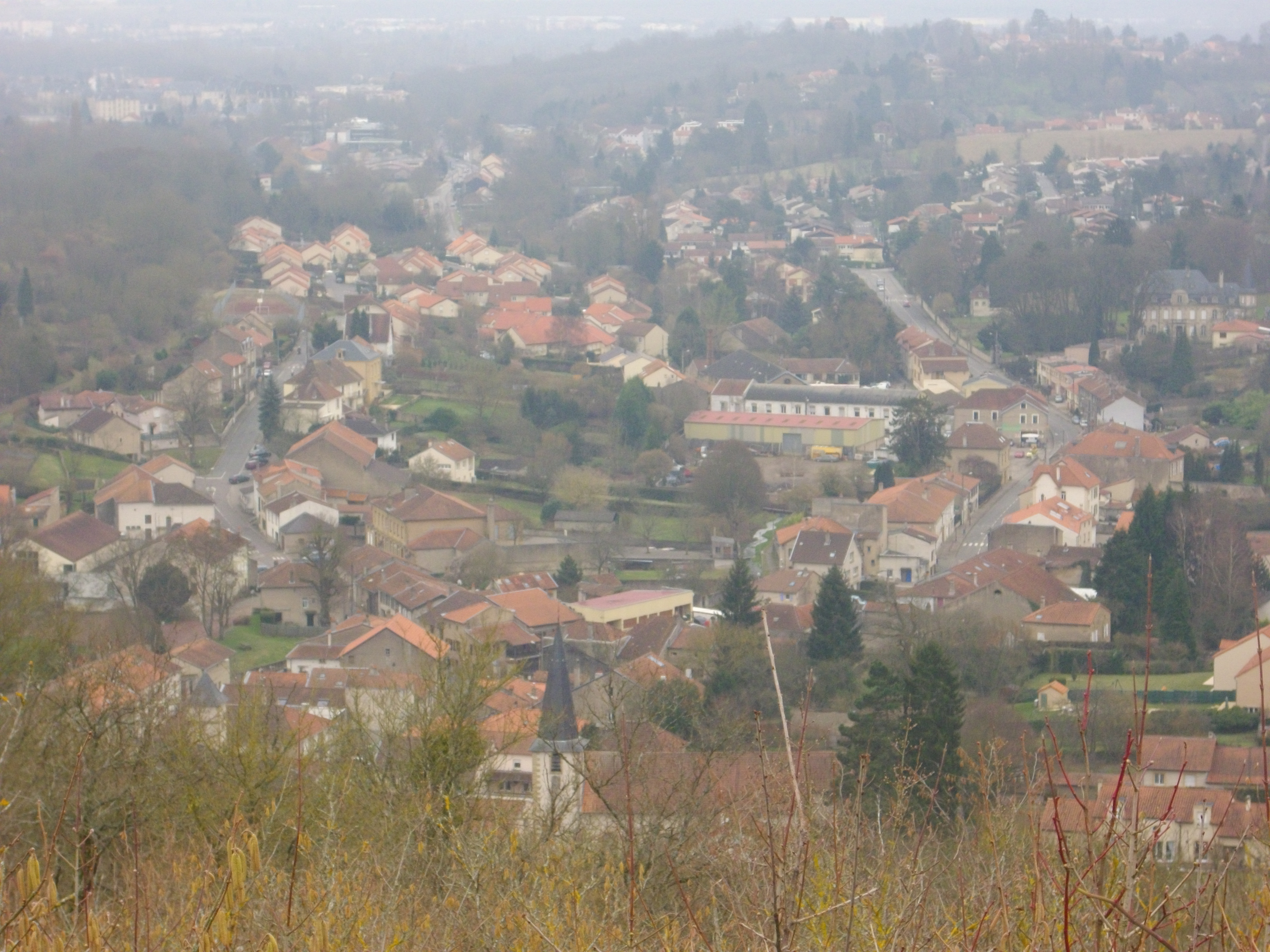 Châtel-Saint-Germain seen from Saint Germain Mount (Moselle, France)